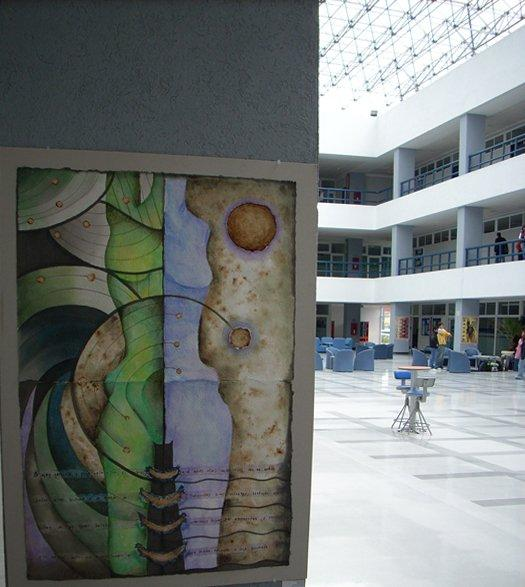 Citlalli Arreguín individual exhibition at Garros Galería